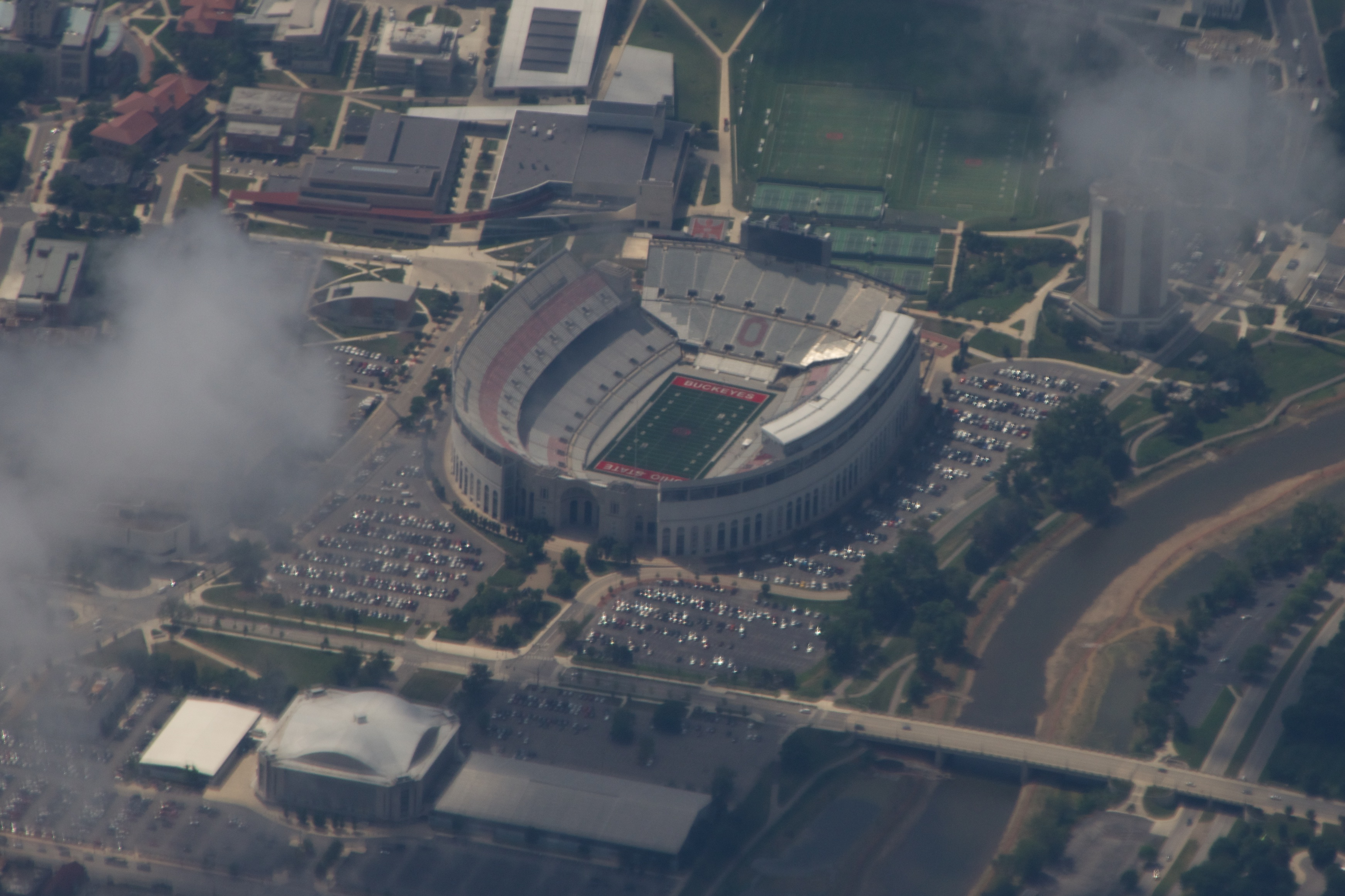 Aerial photograph of Ohio Stadium